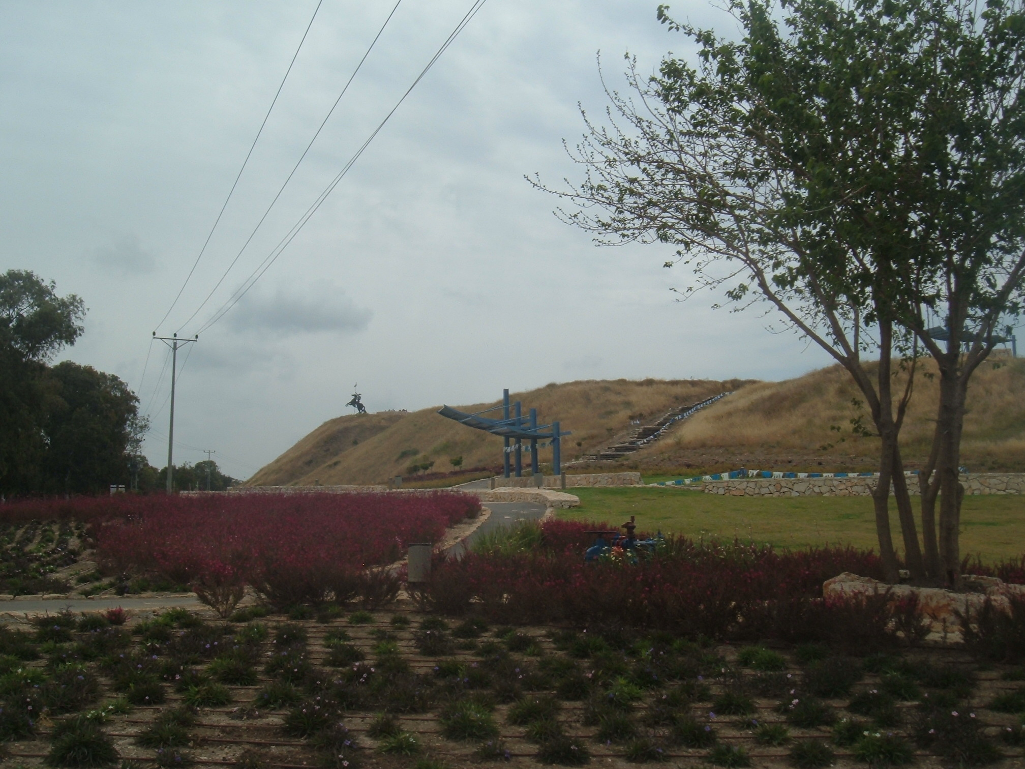 Napoleon's hill Acre